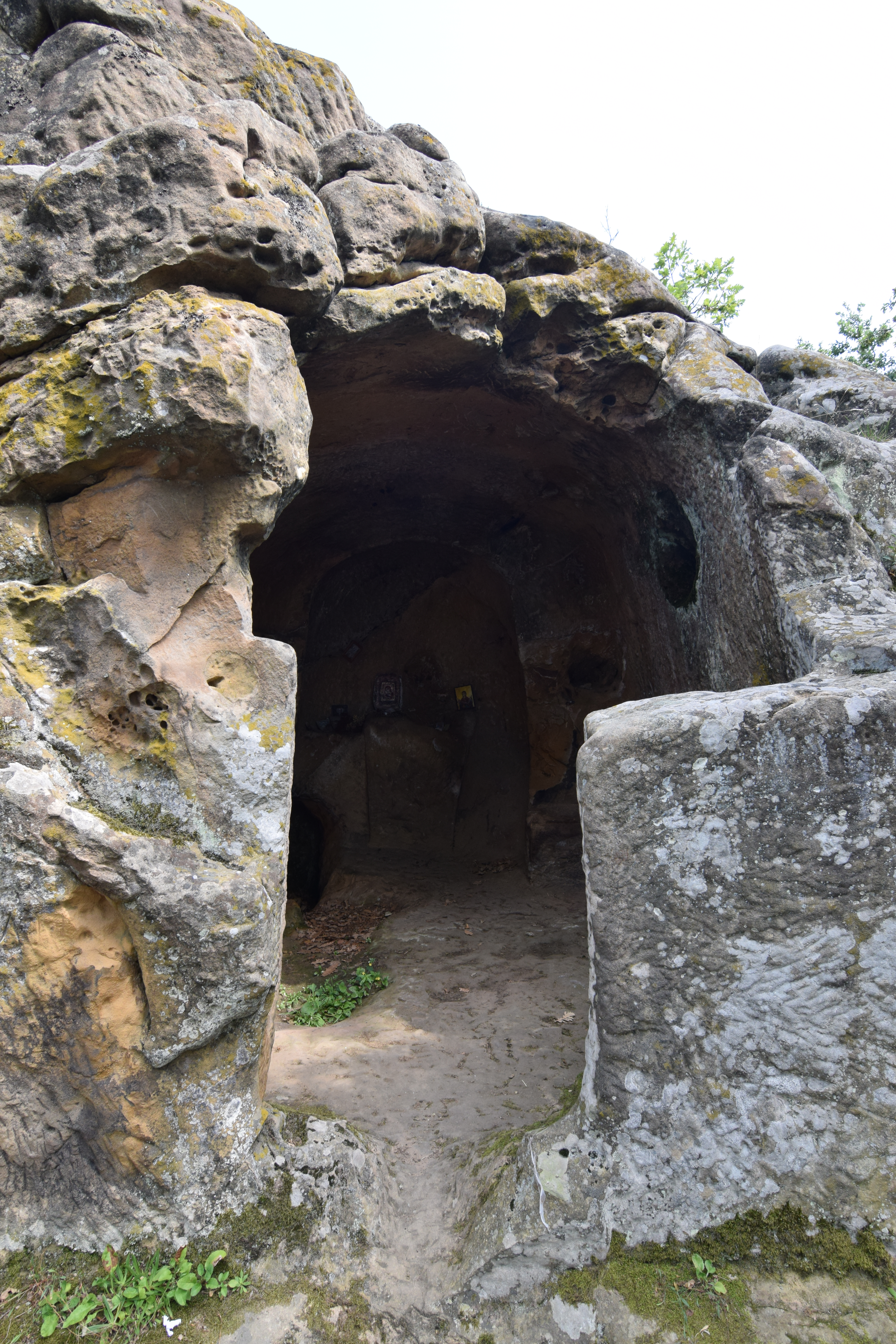 Bozhenishki Urvich is a ruined fortress on the northern slopes of Lakavishki Reed in the western Balkan Mountains at 3 km south of village Bozhenitsa and 20 km from the town of Botevgrad, Bulgaria. It is situated at 750 m a.s.l.